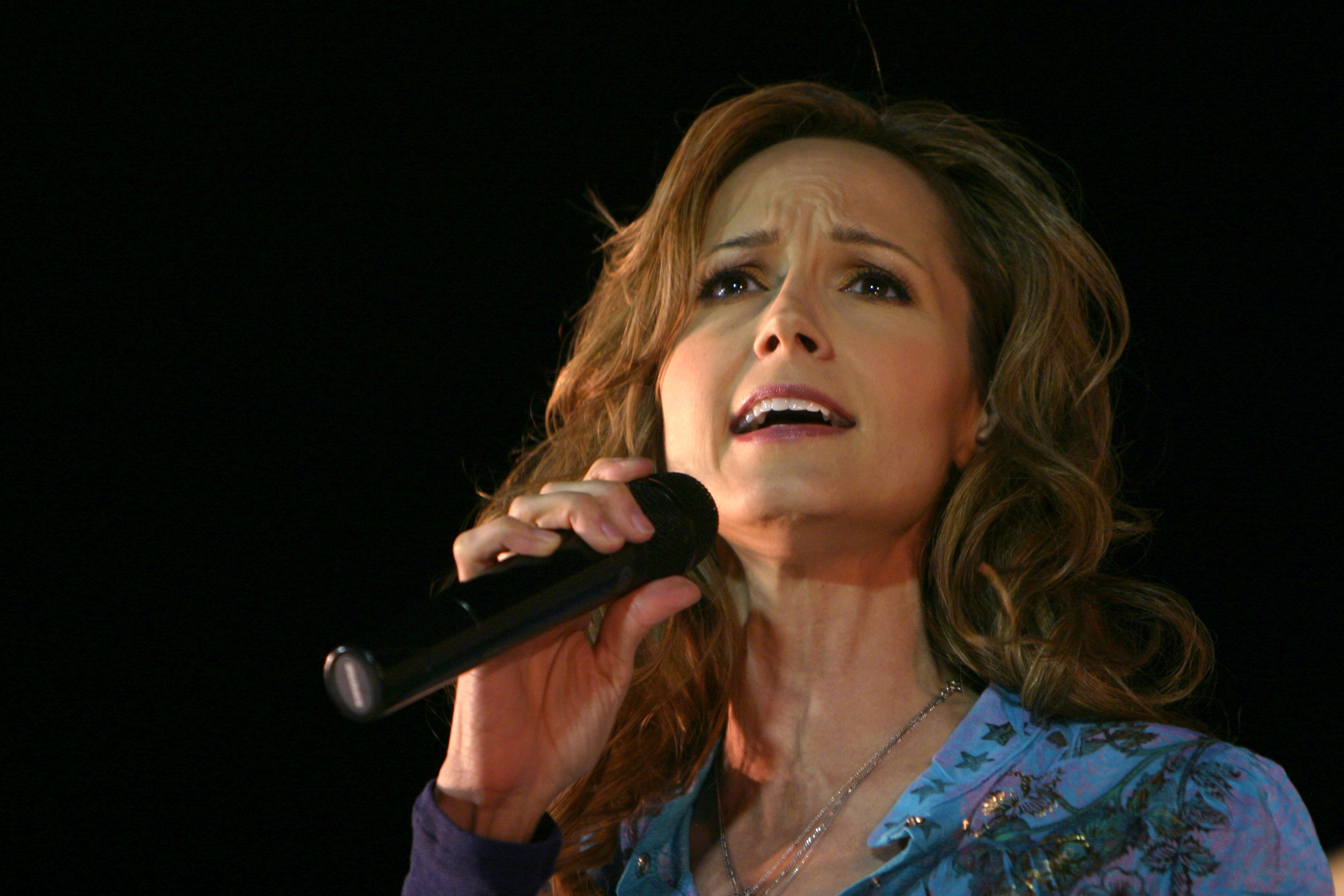 Country singer Chely Wright.